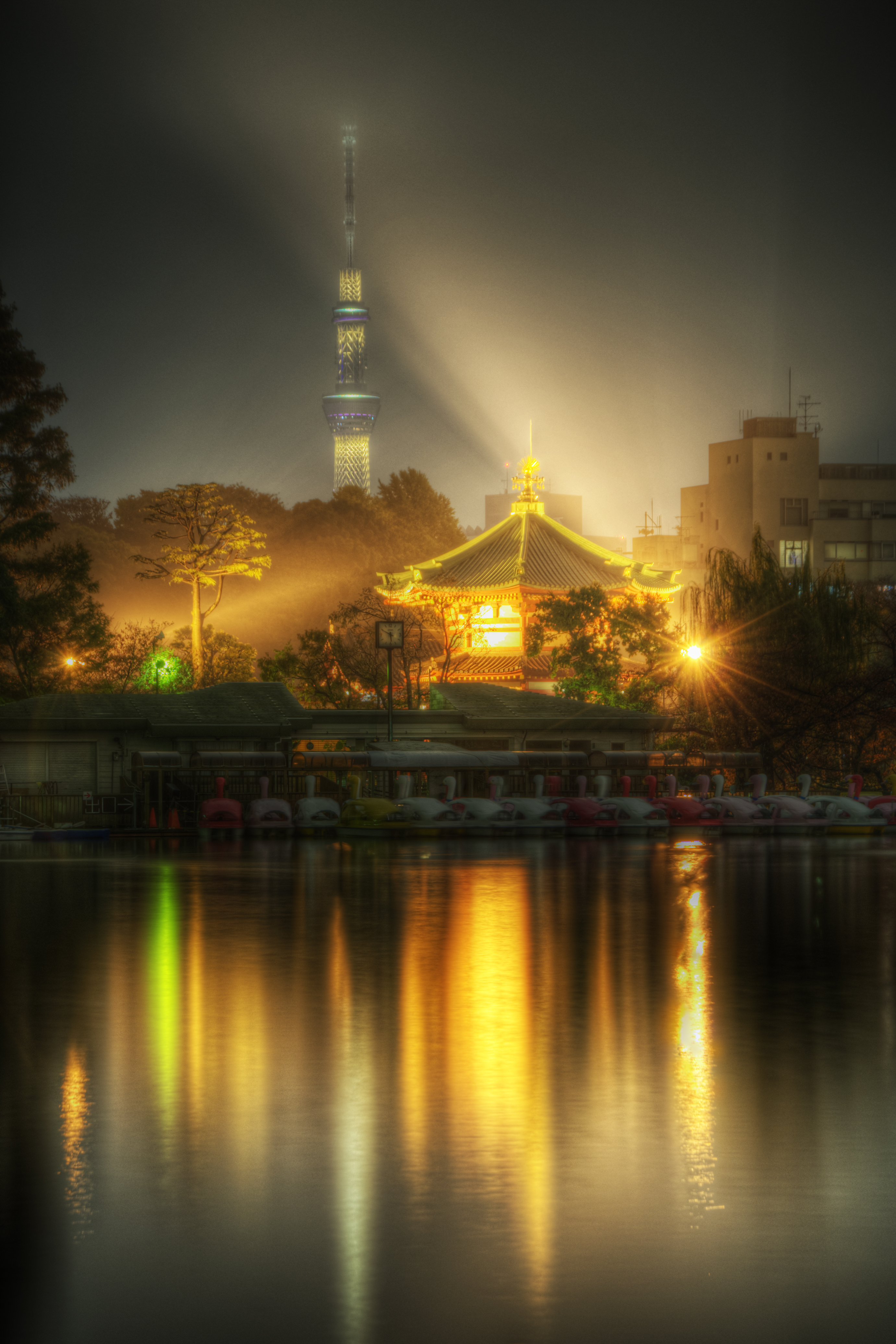 2012年11月26日、東京上野の弁天堂とスカイツリー。それとアヒルのペダルボートたち。 日本の古いもの、新しいもの、そしてちょっと新し目のものの共演。 11/26/2012, Bentendo-temple & Skytree & duck pedal boats in Ueno Park, Tokyo. A collaboration of something old, new, and a little new.